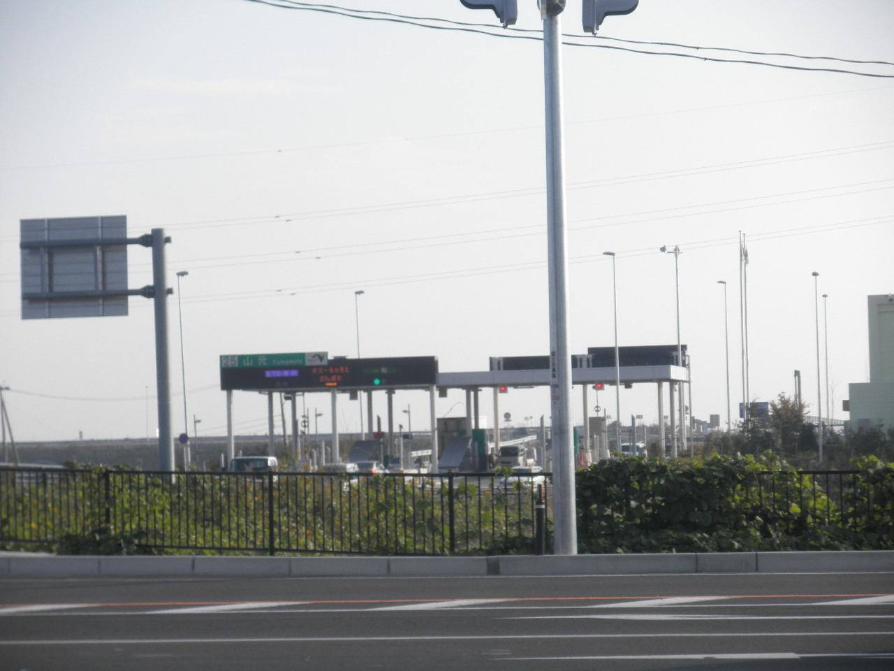 Yamamoto Interchange